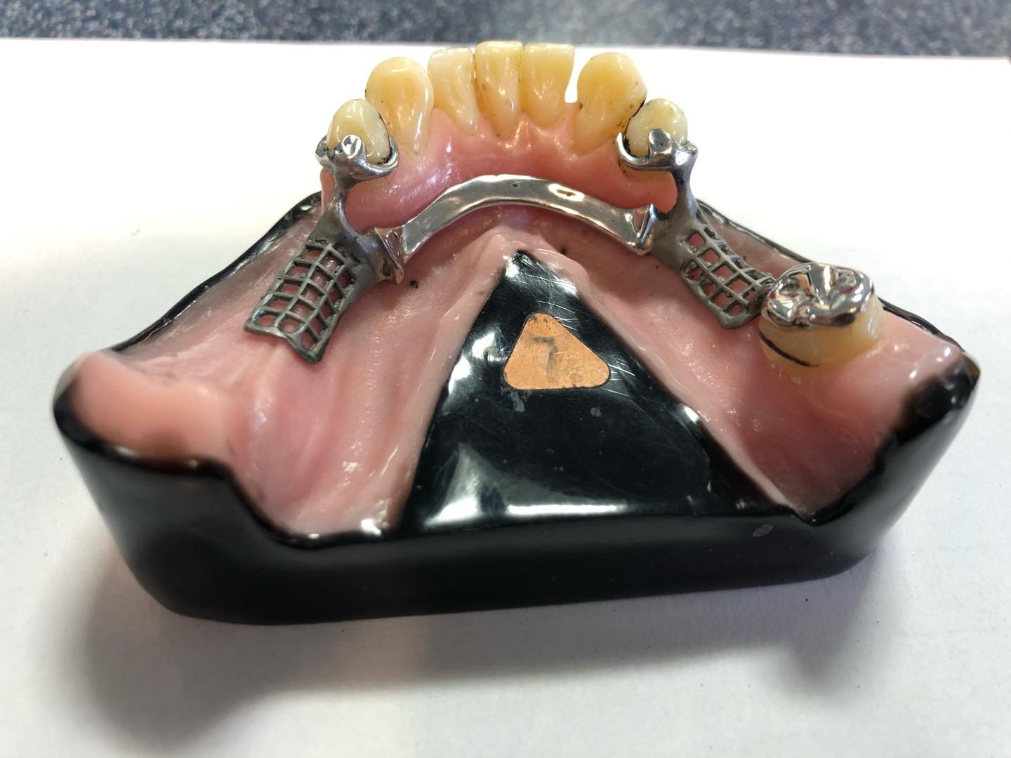 Lingual bar example (Photo of model from University of Dundee Dental School integrated teaching laboratory)